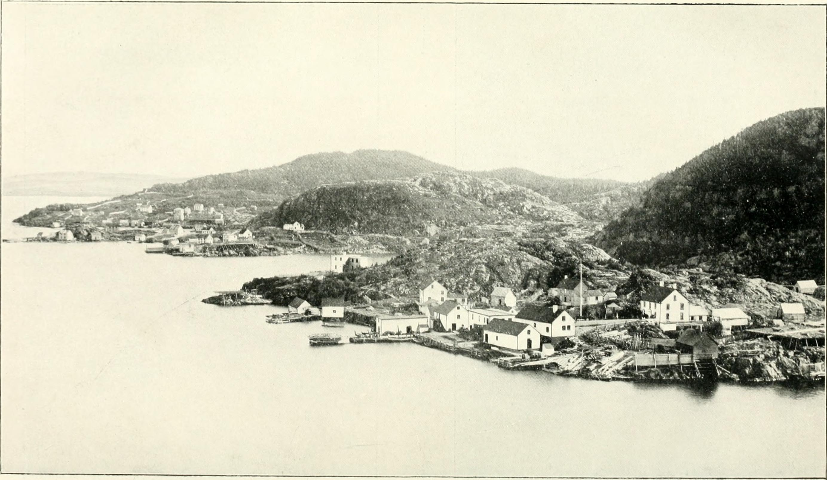 Exploits - Notre Dame Bay, Newfoundland, ca 1911 Title: Newfoundland in 1911, being the coronation year of King George V. and the opening of the second decade of the twentieth century Year: 1911 (1910s) Authors: McGrath, P. T. (Patrick Thomas), b. 1868 Subjects: Newfoundland and Labrador Publisher: London : Whitehead, Morris & Co., Ltd. Text Appearing Before Image: Photo.) On the little River Codroy. (Holloway) Text Appearing After Image: IMAGE: Notre Dame Bay (Holloway) 65 terminals point, where the several bay steamers connect with the trains, substantial wharves and adequate freight ship.s are provided. The Company's steamers are equally up-to-date and satisfactory in every respect. The Bruce, plying between Port-aux-Basques and North Sydney, Cape Breton, where she connected every other day with the Intercolonial Railway system of Canada, and thus enabled communication to be made with every part of the outside world, had become almost a household word in the colony, during her twelve years performance of this service, until she was unfortunately wrecked on the Nova Scotia coast last March.She was seventeen-knot steamer of clipper type, specially constructed to withstand ice, and was the staunchestand stoutest ship in North American waters ; costing $250,000, having excellent accommodation for passengers, and even in mid-winter able to battle with the heaviest ice floes and to make her trips, except on rare occasions,with clockwork regularit)^ Slightly smaller